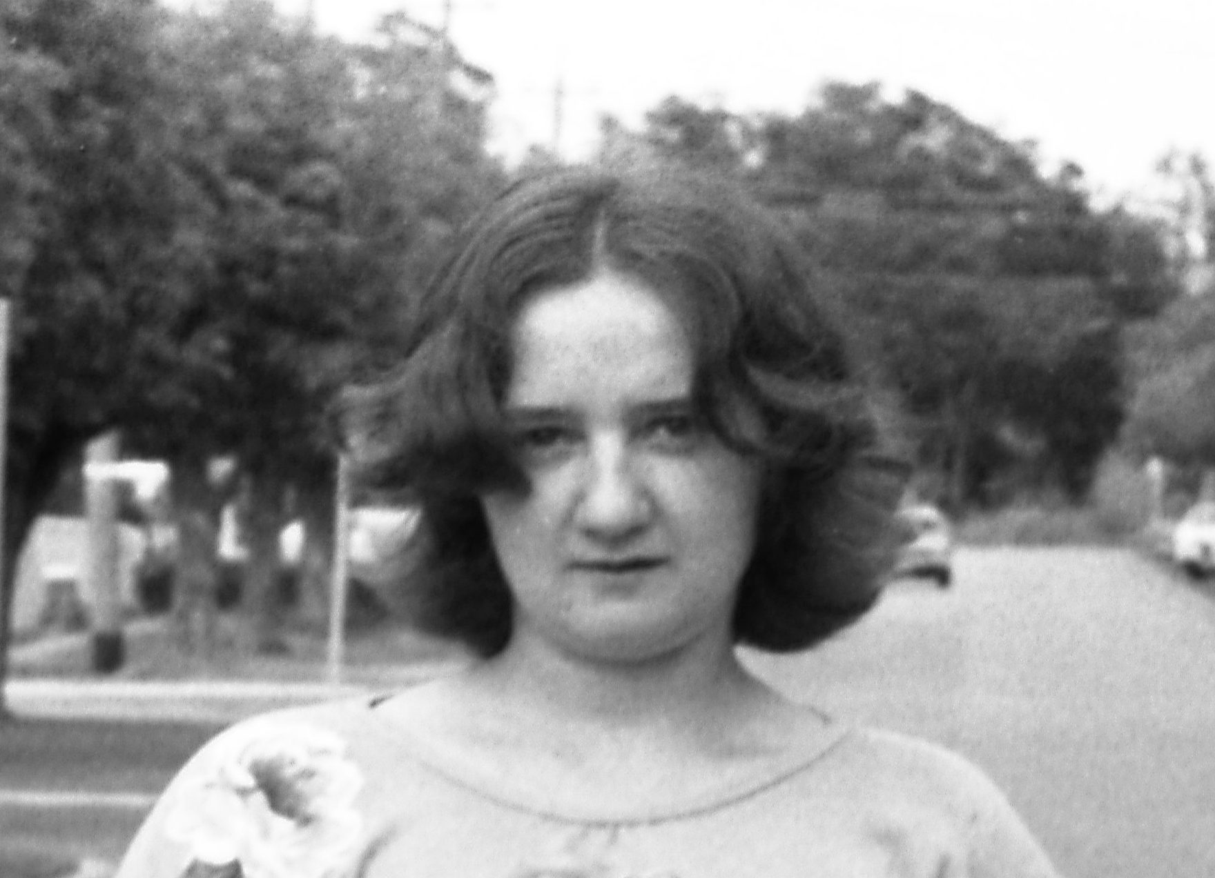 Anna Livia Julian Brawn -(November 13, 1955 in Ireland – August 5, 2007) - photograph taken in Nedlands, Western Australia in the 1970's